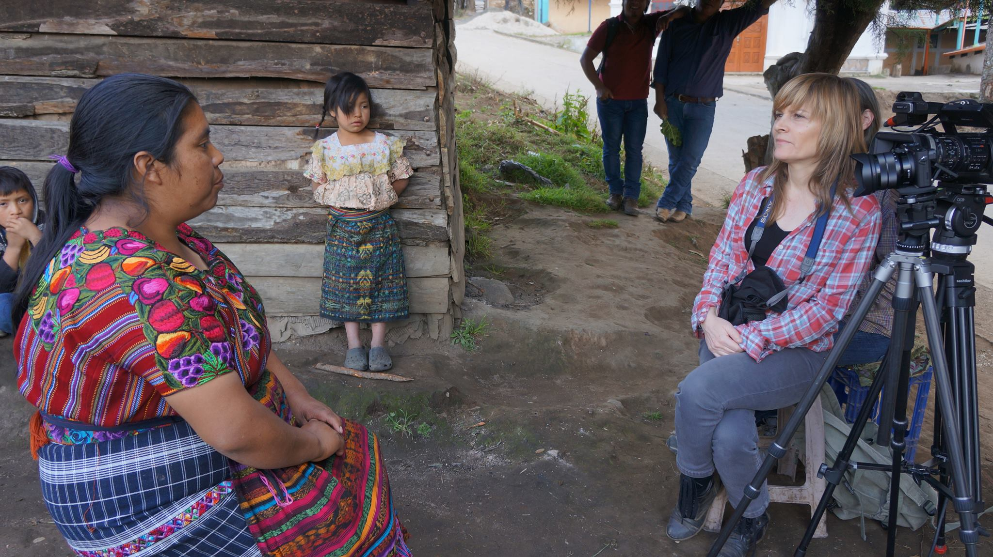 Jody Santos in a documentary shoot for public television in Guatemala